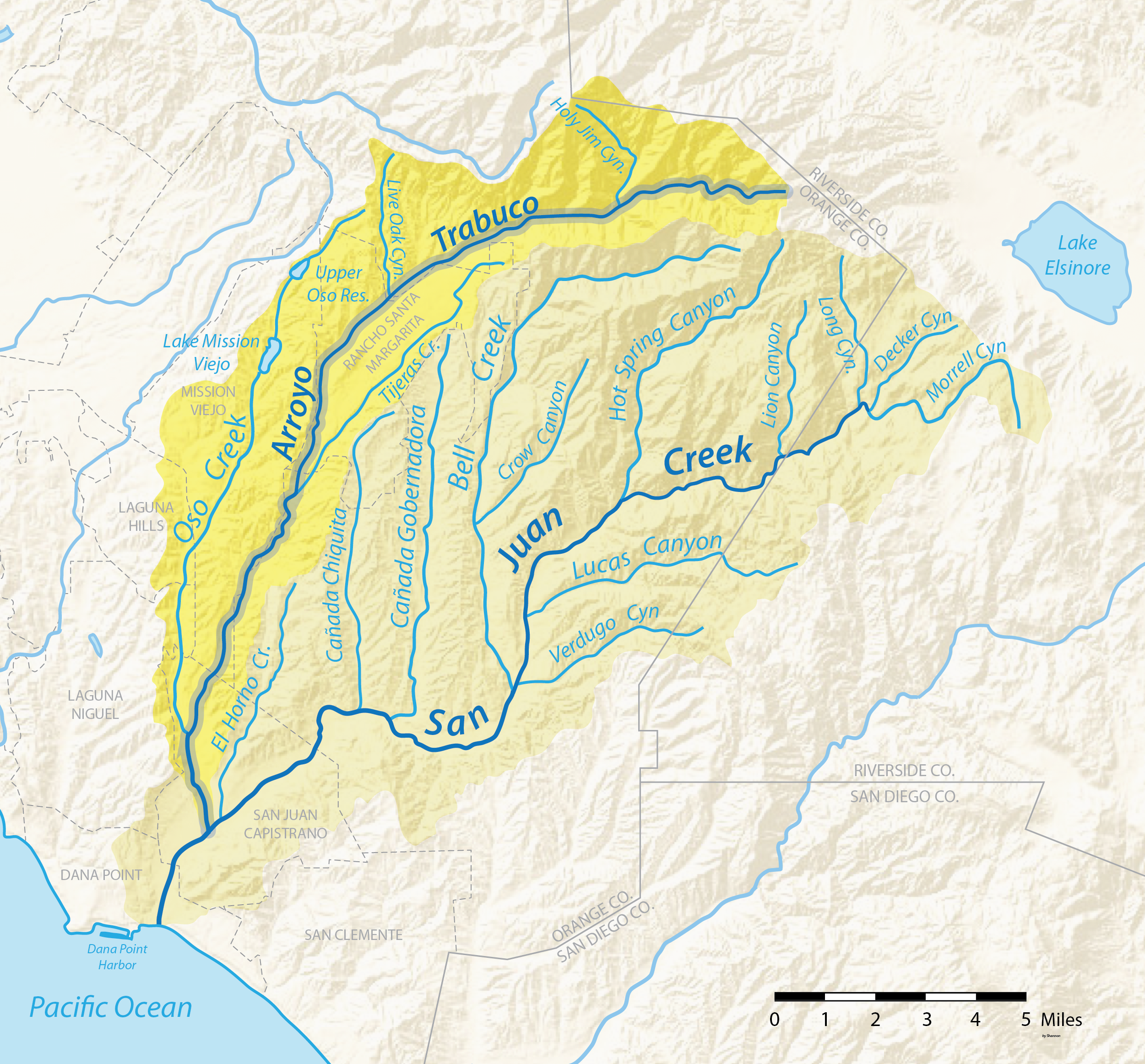 Map of the Arroyo Trabuco (Trabuco Creek), part of the San Juan Creek watershed in Orange County, California. Made using USGS National Map data.